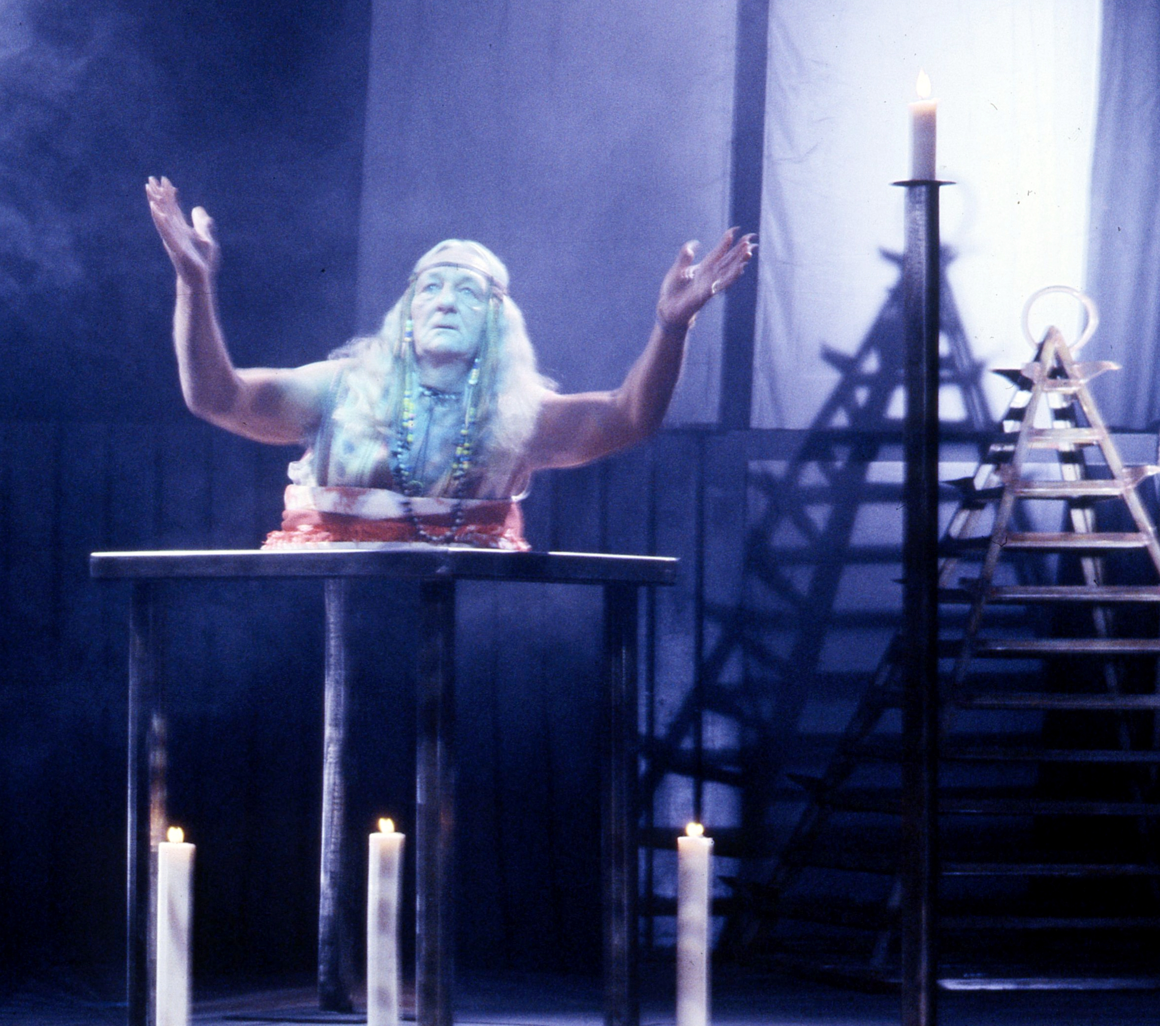 Sideshow attraction featured in the Channel 4 series The Secret Cabaret